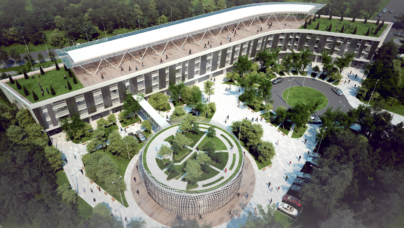 Teaching quarter in the Skolkovo innovation city (layout)